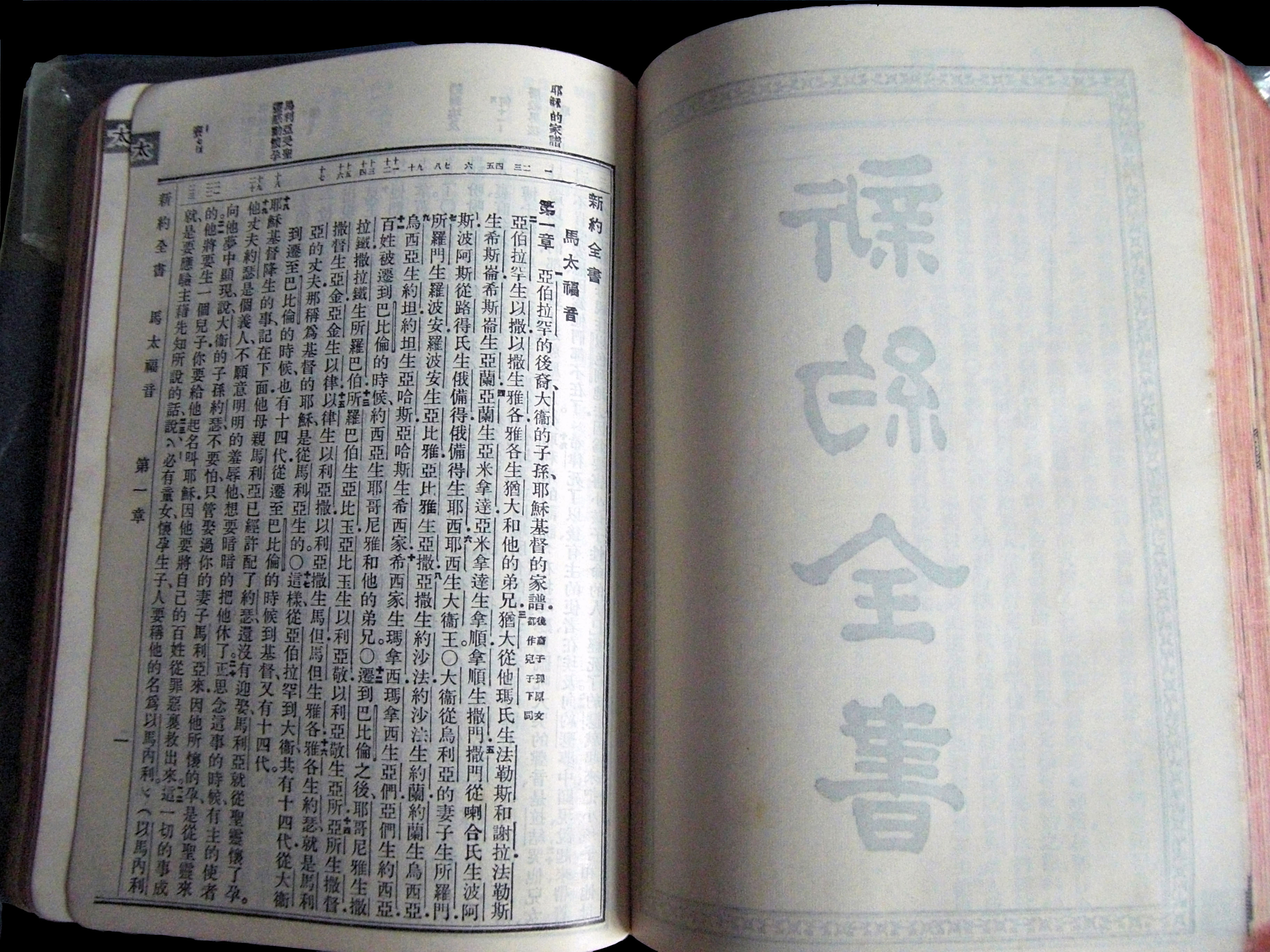 Kuoyu Union Version Chinese Bible, printed by Hong Kong Bible Society in 1960.